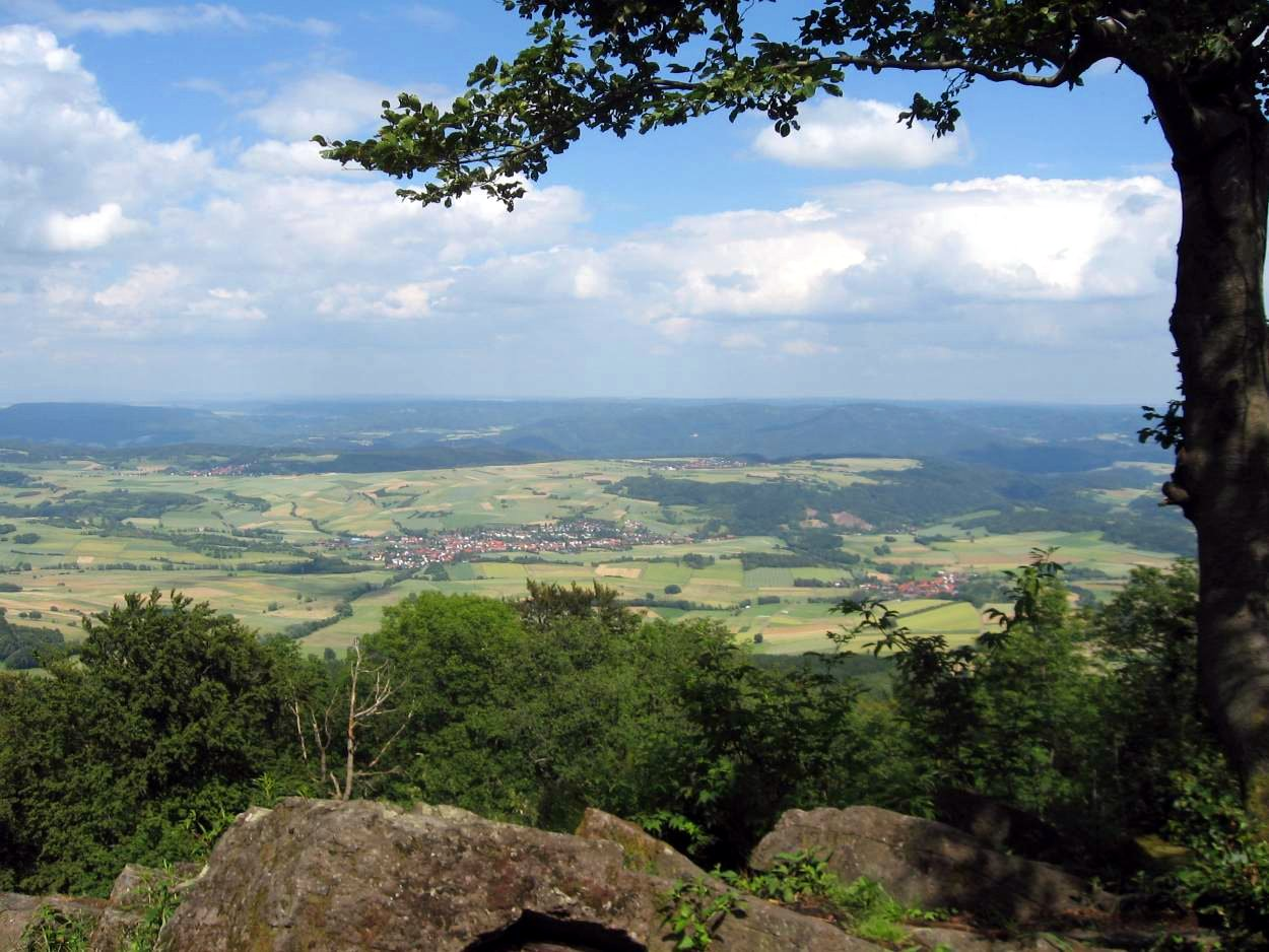 Mountain "Hoher Meißner" - East view from the "Kalbe", Hesse, Germany.